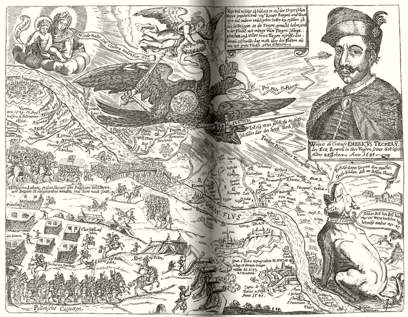 Battles in Hungary in 1683